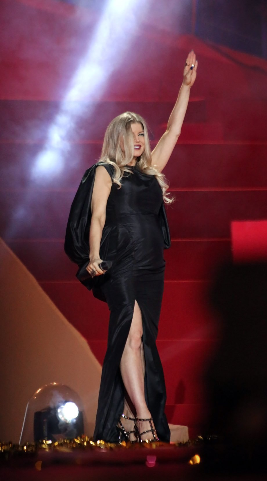 Fergie, representing amfAR, The Foundation for AIDS Research, opening show of Life Ball 2013 at the city hall of Vienna, Vienna, Austria.